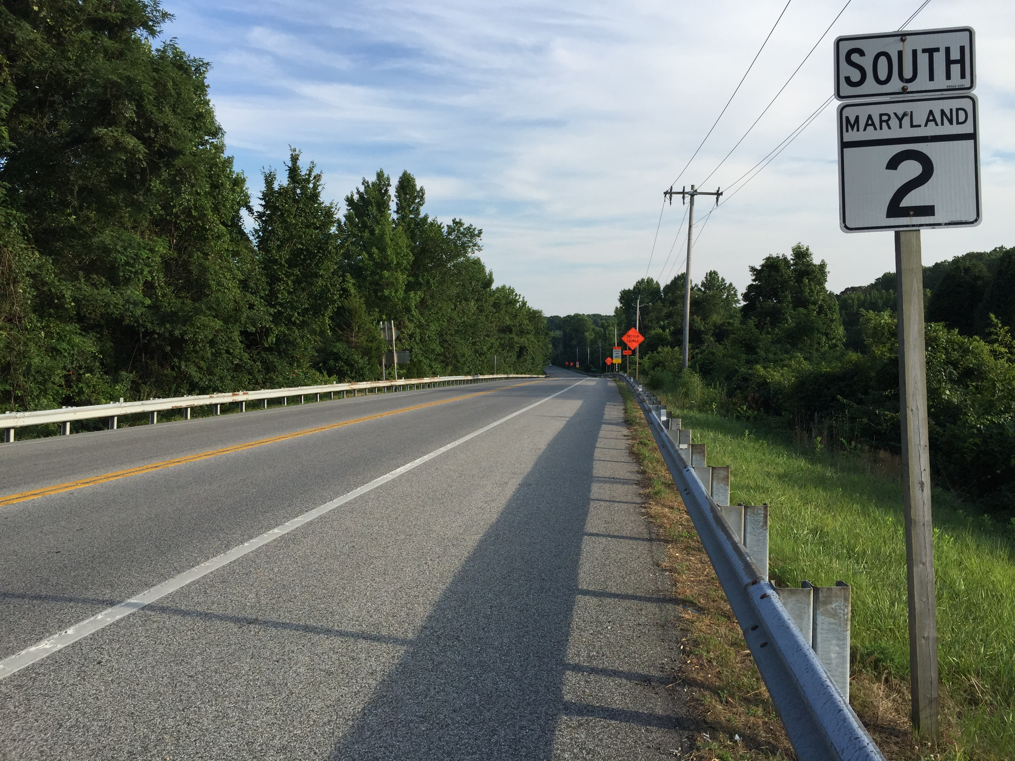 View south along Maryland State Route 2 (Solomons Island Road) just south of Grovers Turn Road in Owings, Calvert County, Maryland